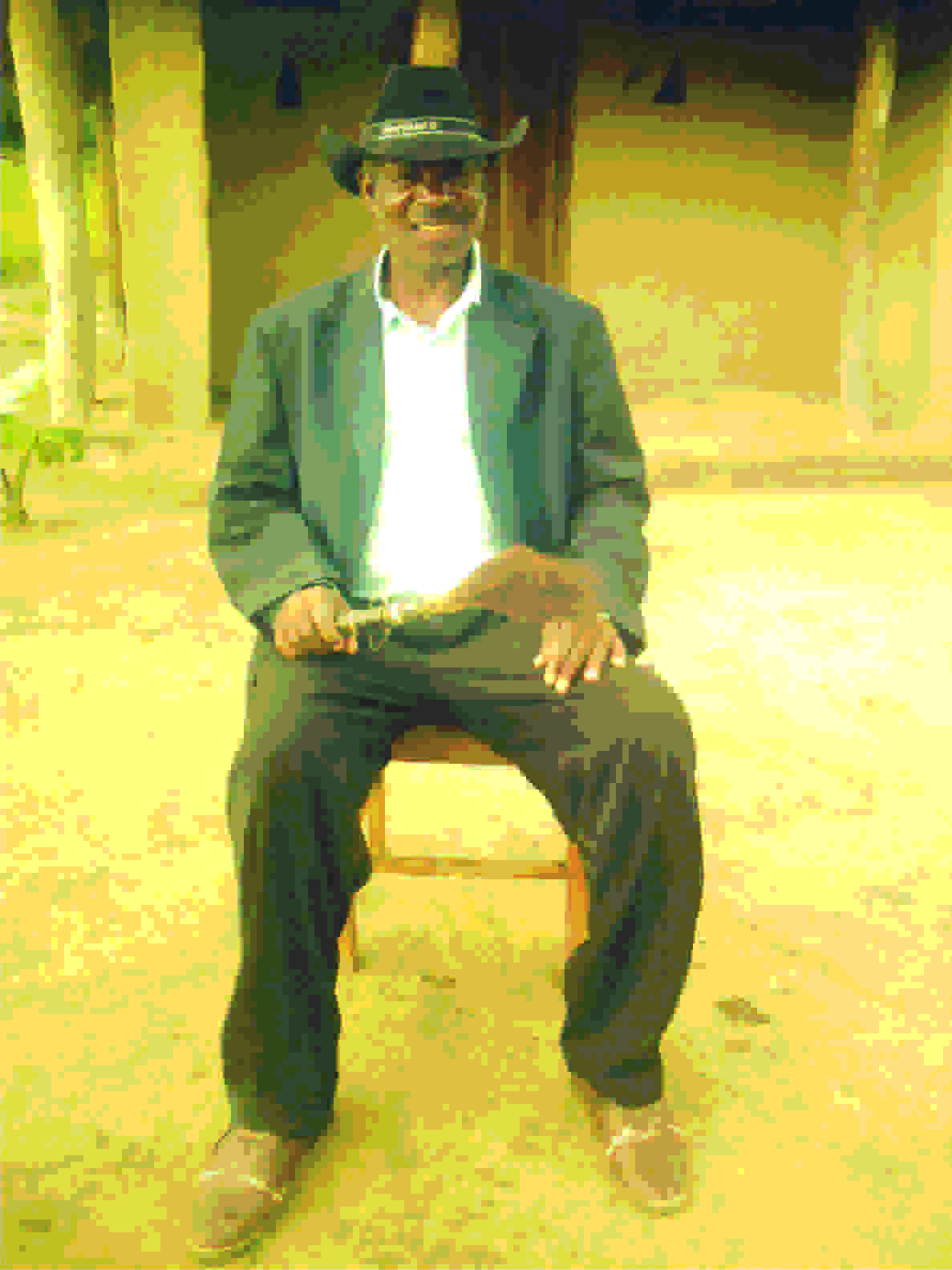 Chief Mwene Kathimba Johnson Mbindo at his palace in Kalumwange, Kaoma District, Western Province of Zambia